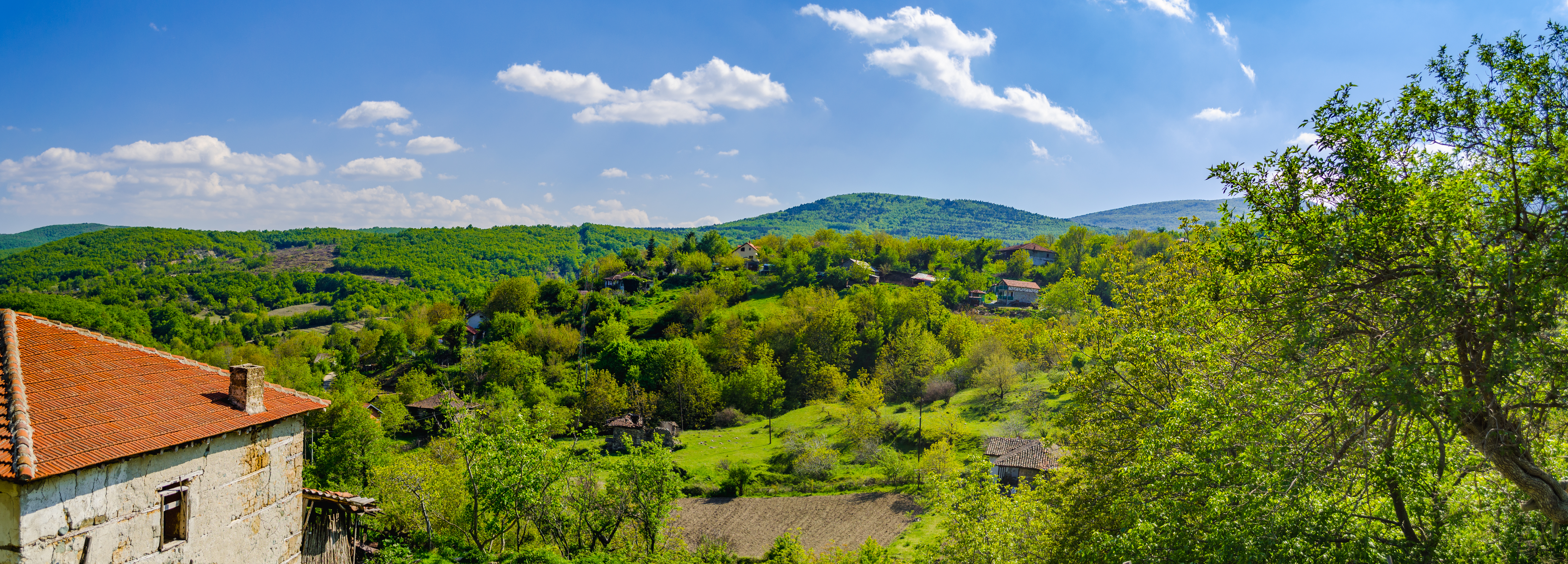 View of the village Sermenin